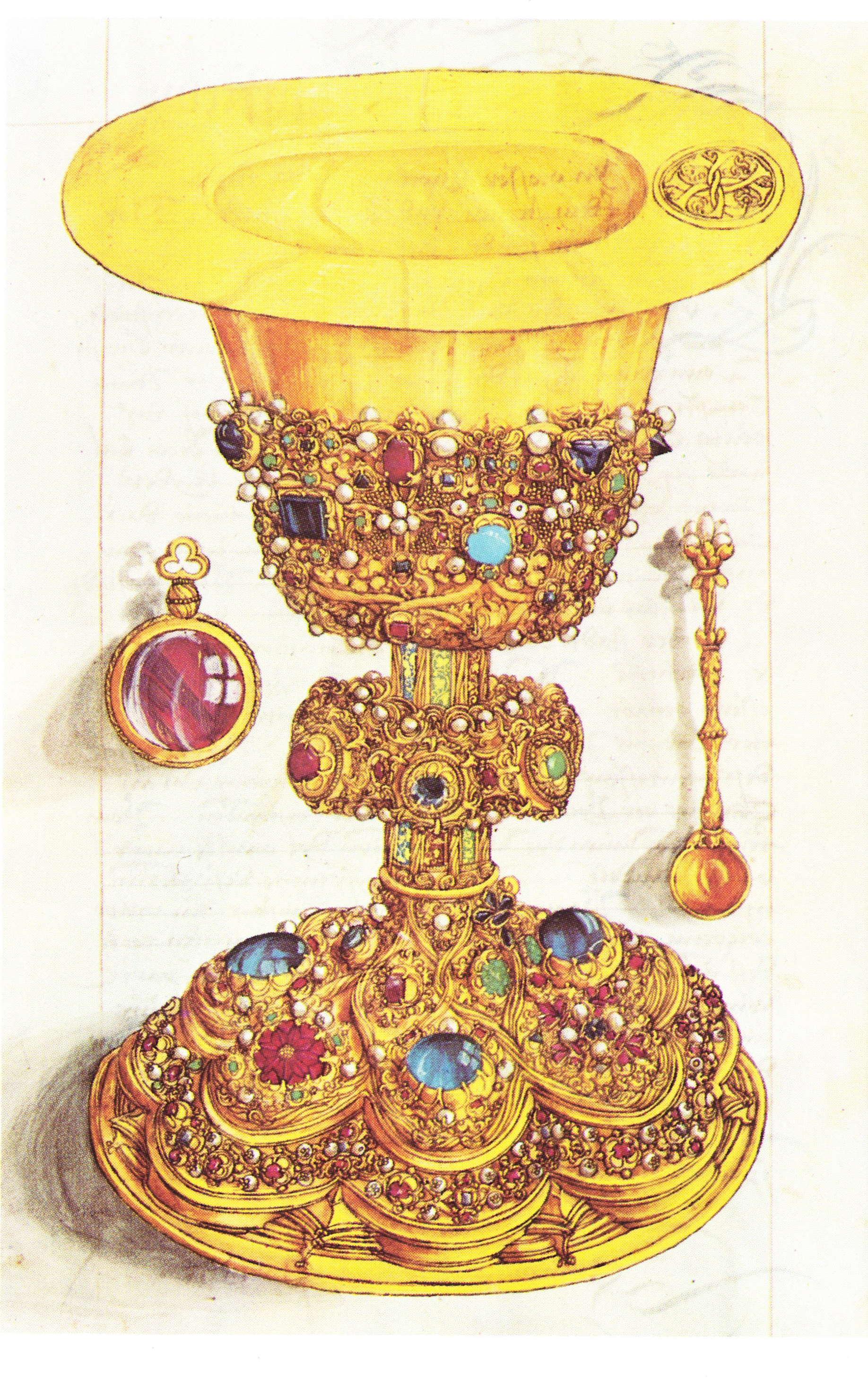 Golden chalice. Miniature in "Hallesches Heiltumsbuch", 1526, Aschaffenburg, Hofbibliothek. Represented is a work by the goldsmith Hans Hujuff from Halle (Germany), now in Uppsala cathedral.